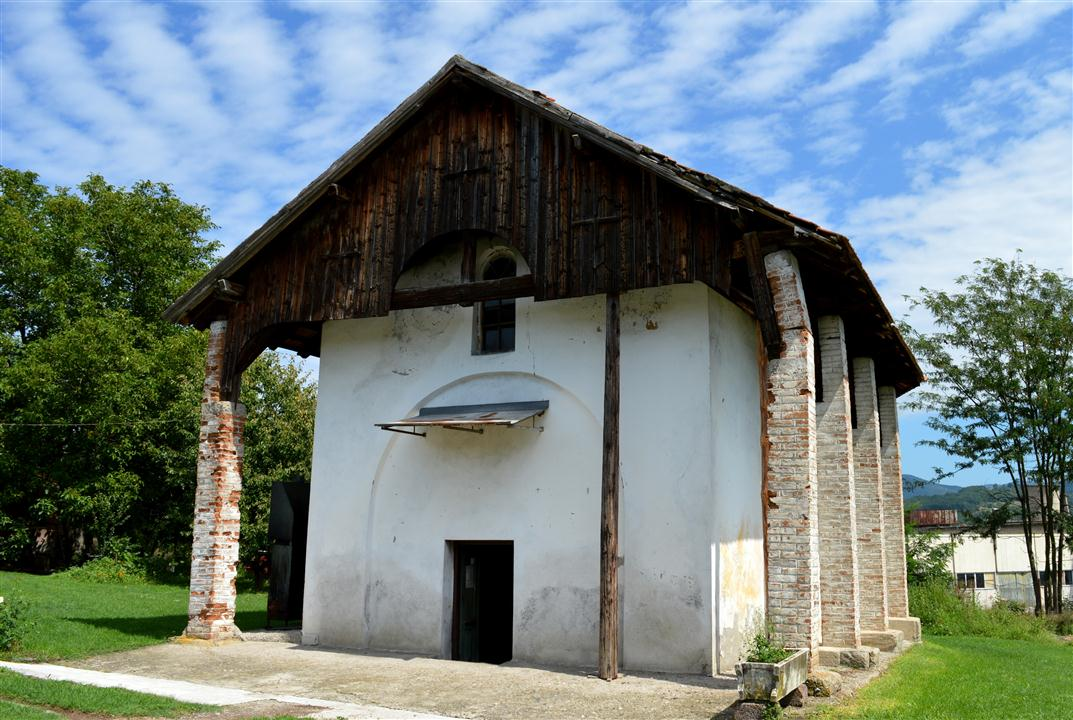 Raska Municipality - Church of St. Nicholas in Baljevac